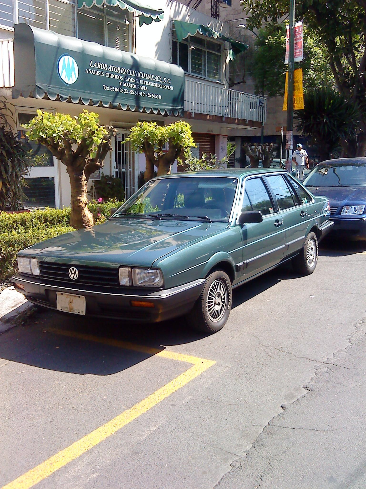 Volkswagen Corsar CD Full 1987